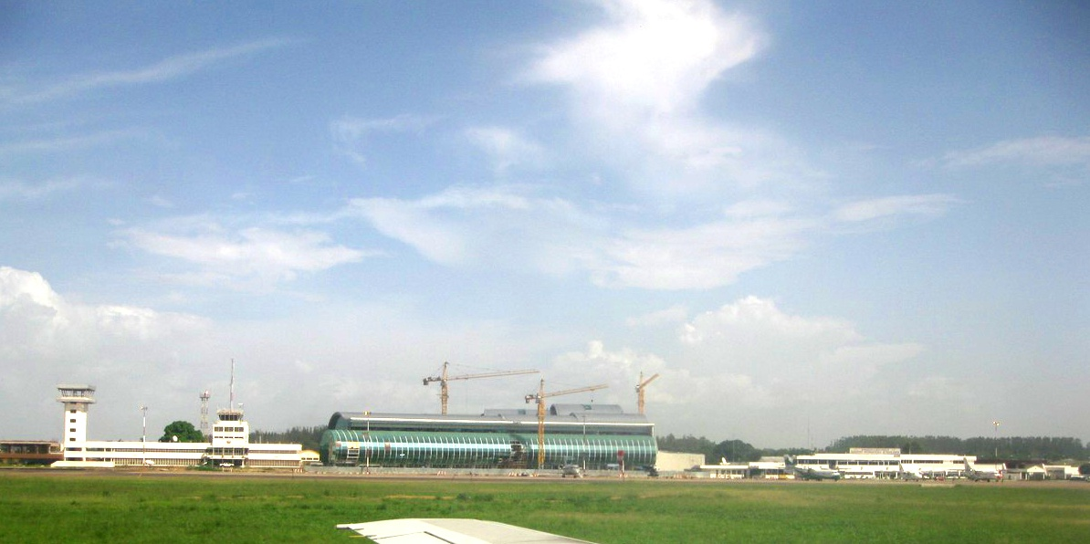 cropped and brightened version of file:Aeroport maya-maya.jpg, about the terminal of Brazzaville Maya-Maya Int'l Airport in 2010. In the middle is the new terminal under construction, on the right is the old terminal.